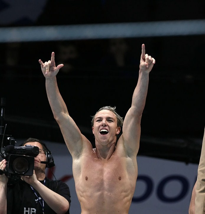 Grant Brits, Australian swimmer